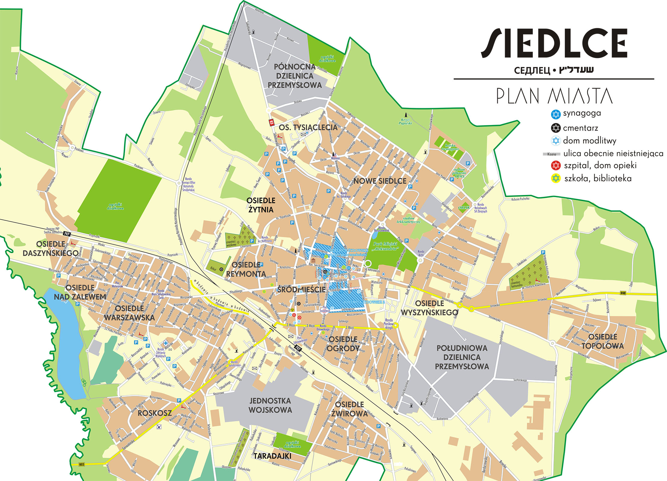 Siedlce Jewish Getto and Jewish District